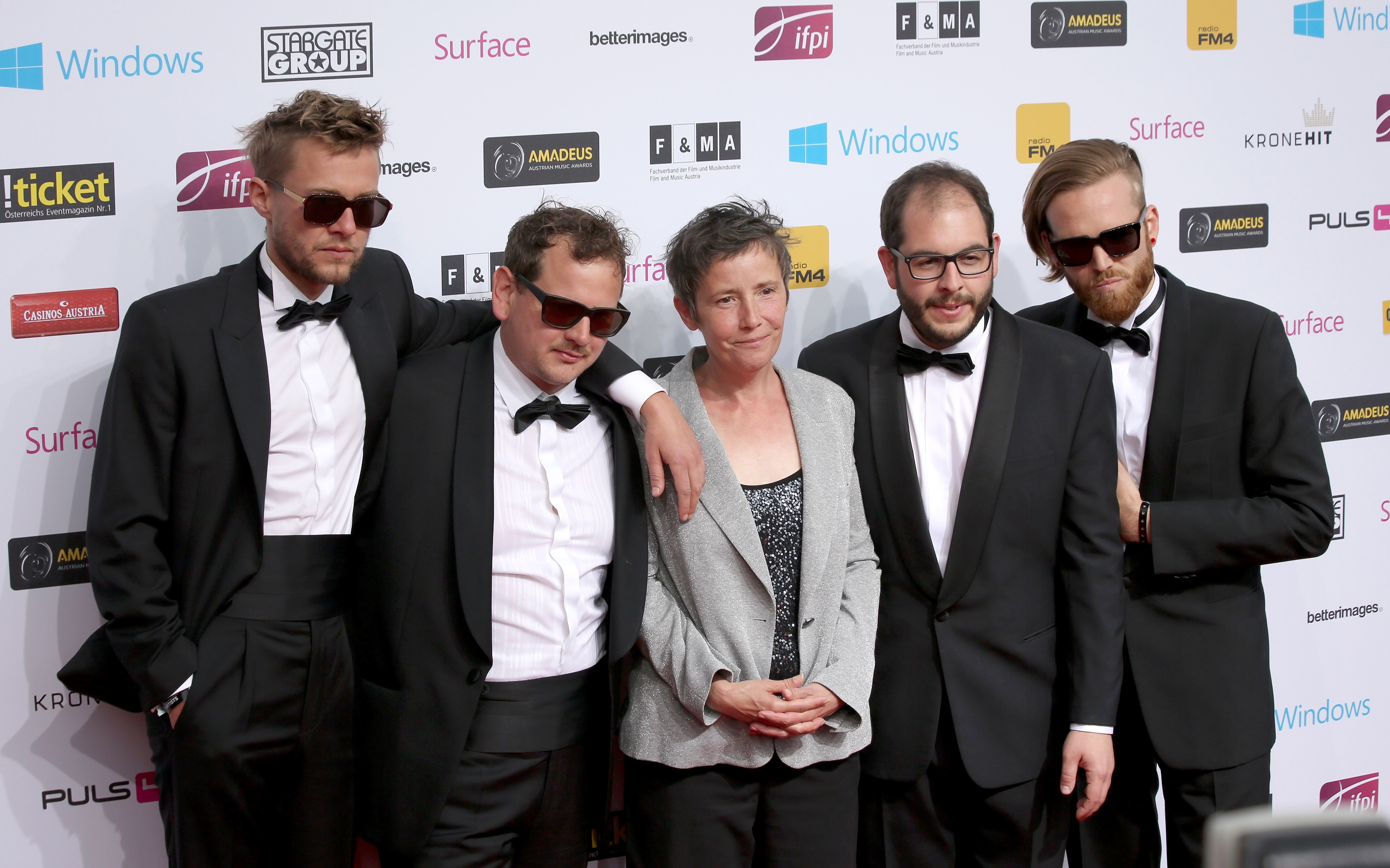 5/8erl in Ehr’n at the Amadeus Austrian Music Award 2014 at Volkstheater in Vienna